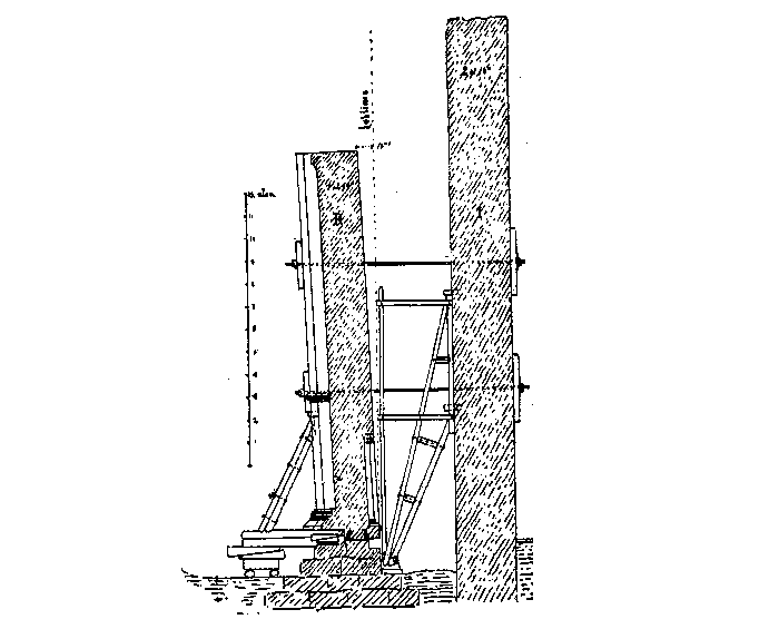 Straightening of the choir wall in Nidaros cathedral, Trondheim, Norway.